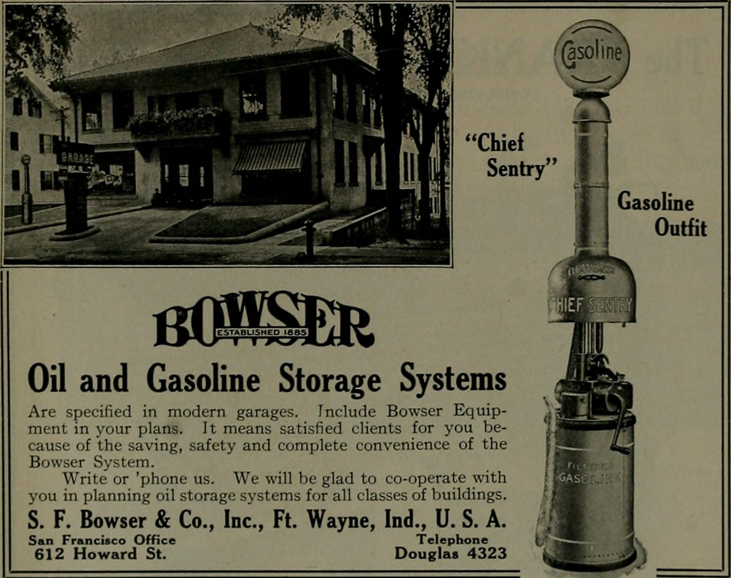 Title: The Architect & engineer of California and the Pacific Coast Year: 1905 (1900s) Authors: Subjects: Architecture Architecture Architecture Building Publisher: San Francisco, Calif. : Architect and Engineer Co Text Appearing Before Image: A.J. FORBES & SON Established in San Francisco in 1850 Office and Factory. 1530 FILBERT ST., S. F. Builder* Ex. Box 236 Bank, Store and OfficeFittings Special Furniture andInterior Woodwork MAGNER BROS. PAINT MAKERS Floratone Flat Wall PaintMabro Concrete PaintConcrete Floor PaintMabro Stipple PaintMabro Enamels and EnamelUndercoaters 414 - 424 Ninth Street, SAN FRANCISCO, CAL. When writing to Advertisers please mention this magazine. THE ARCHITECT AND EXGIXEER 135 Text Appearing After Image: Oil and Gasoline Storage Systems Are specified in modern garages. Include Bowser Equip-ment in your plans. It means satisfied clients for you be-cause of the saving, safety and complete convenience of theBowser System. Write or phone us. We will be glad to co-operate withyou in planning oil storage systems for all classes of buildings. S. F. Bowser & Co., Inc., Ft. Wayne, Ind., U. S. A. San Francisco Office Telephone 612 Howard St. Douglas 4323 WHAJ- SWICK-BALKE-COLLEND ►IV J